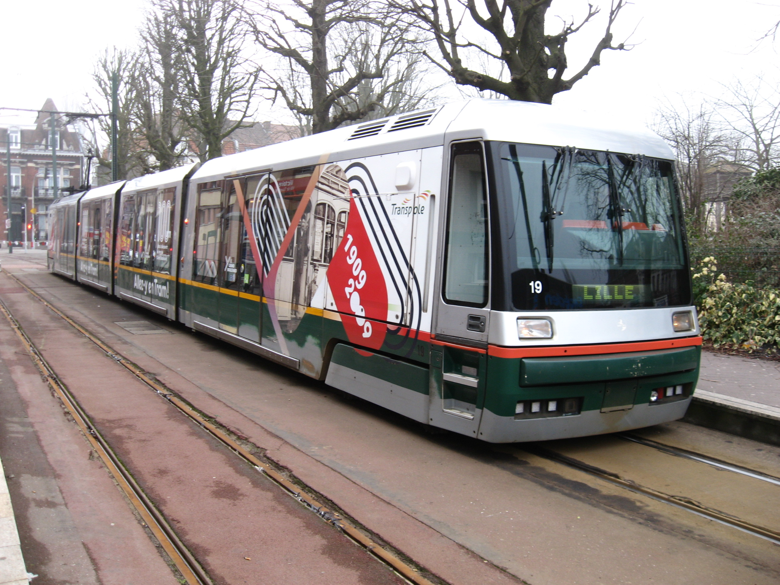 Tram at temporary endpoint Victoire by Tourcoing.